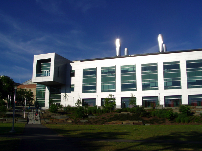 Taken in Ithaca, NY, in July 2005. Duffield Hall, on the Engineering Quad at Cornell University, houses research and teaching facilities for nanoscale science and engineering. It is named for businessman David Duffield.